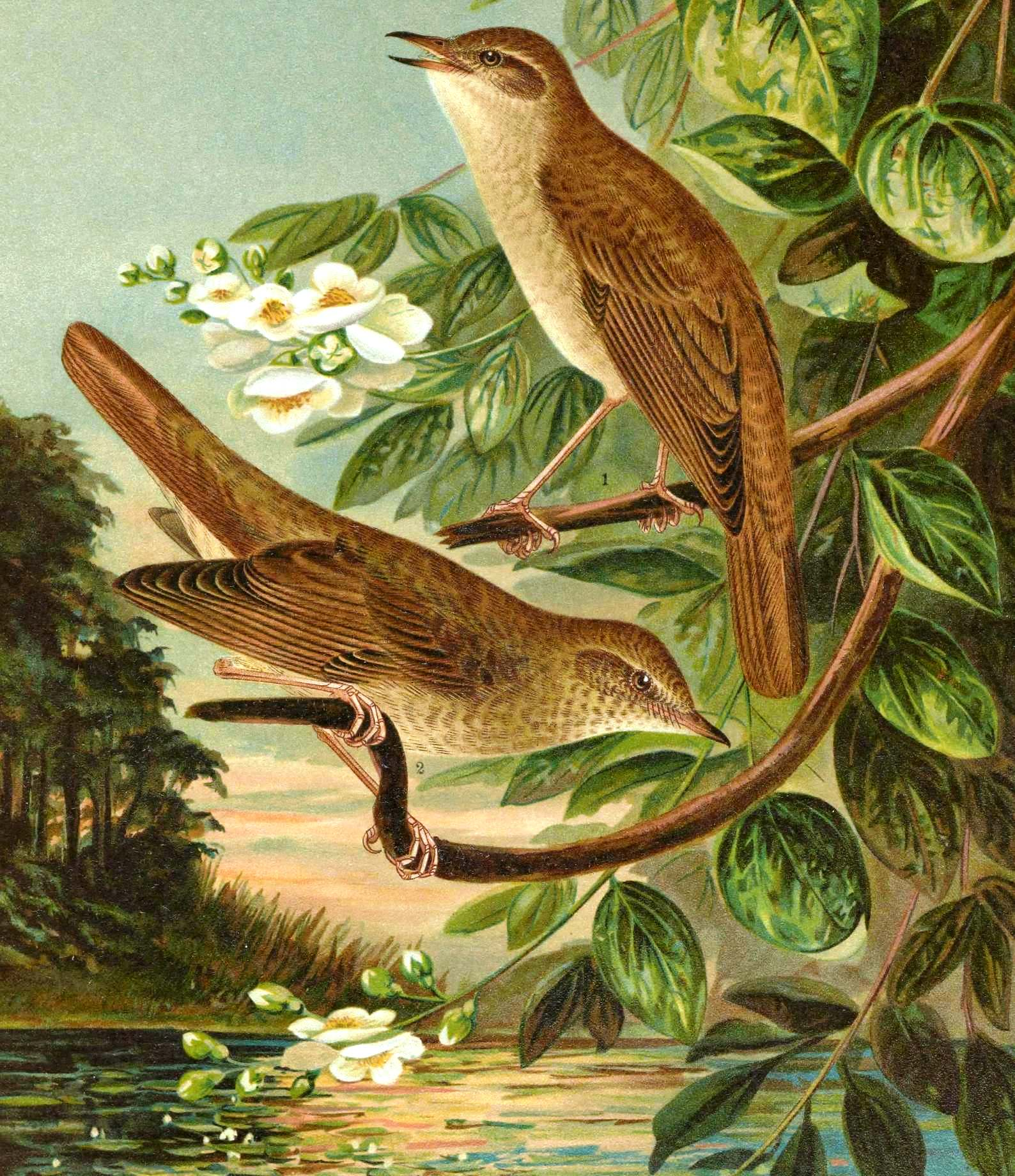 1. Luscinia megarhynchos 2. Luscinia luscinia